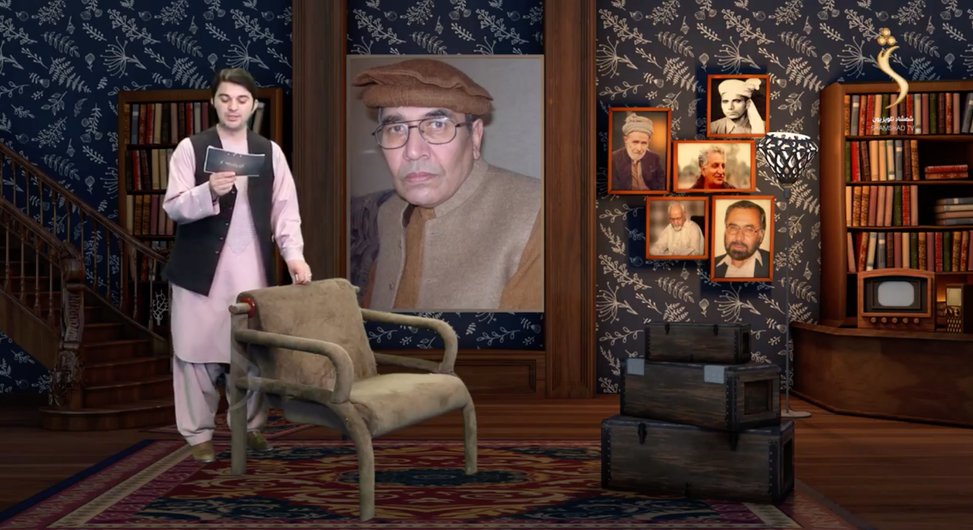 Life summary and documentation about Kabir Stori at Shamshad TV